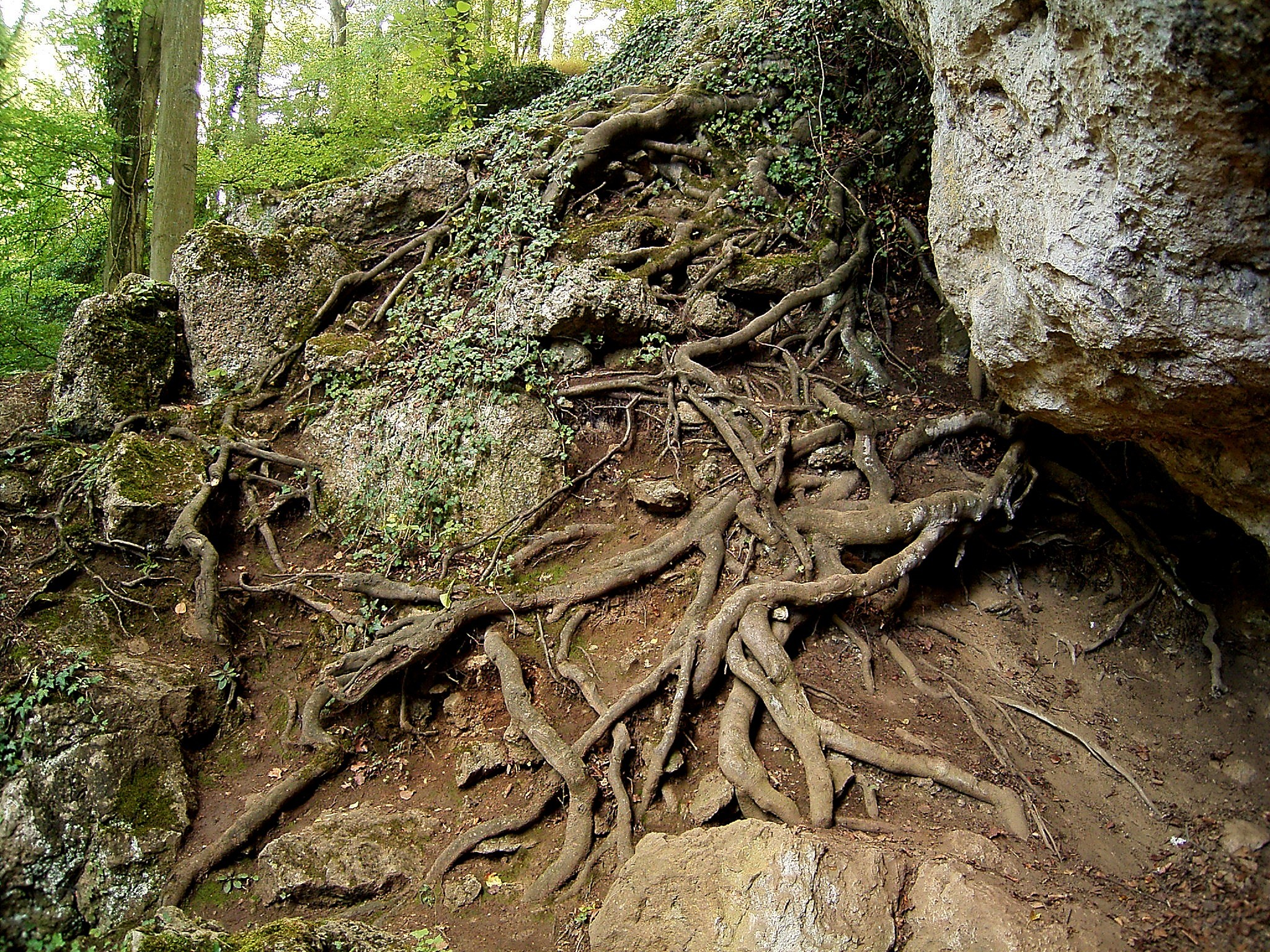 Fagus sylvatica